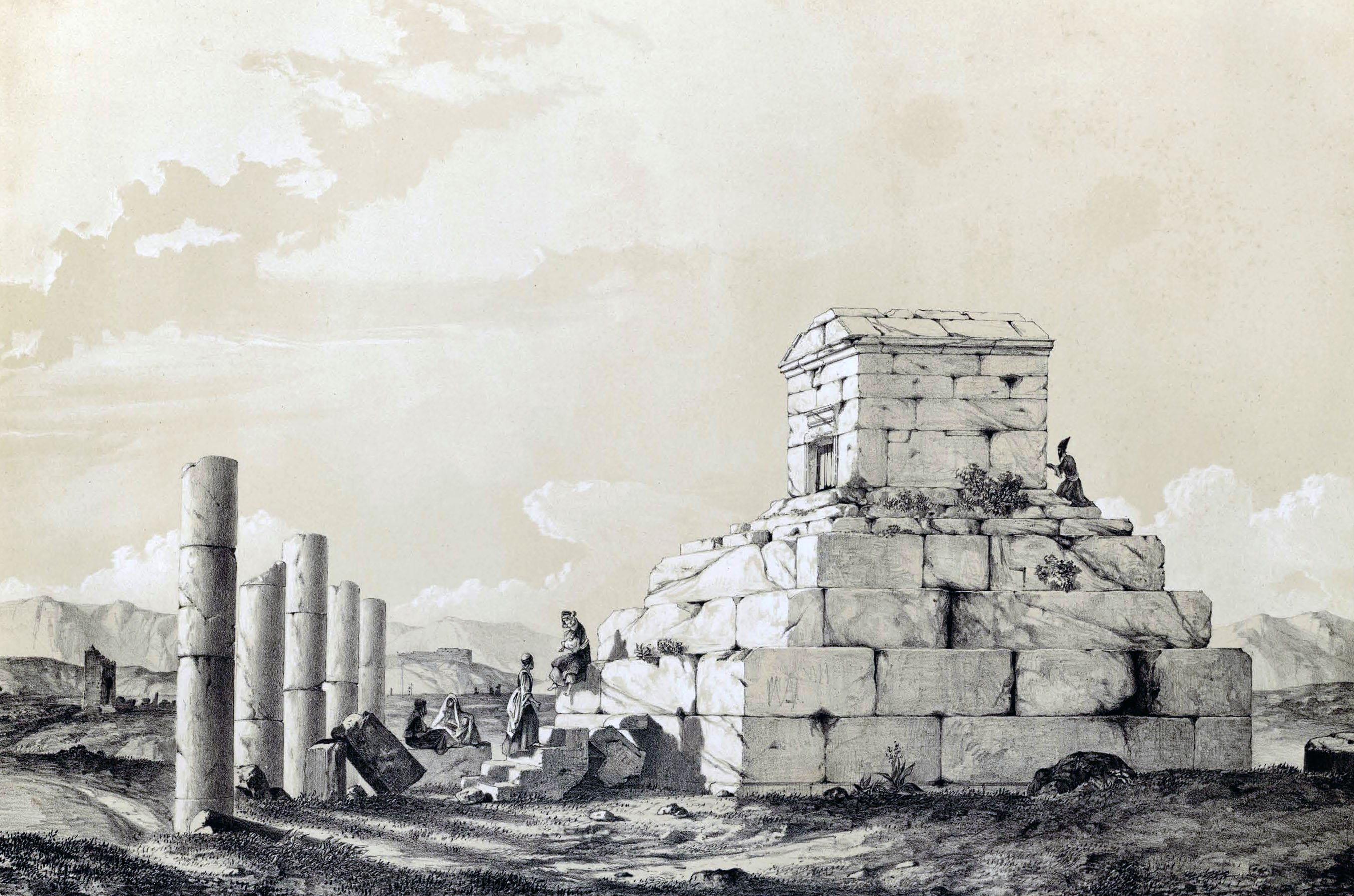 Ruins Passargade Tomb of Cyrus said